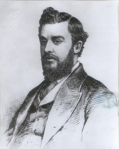 Victor Bruce, 9th Earl of Elgin